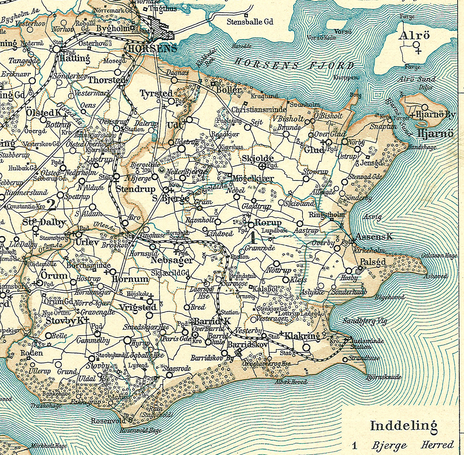 Map of Bjerre Herred in Vejle County in Denmark